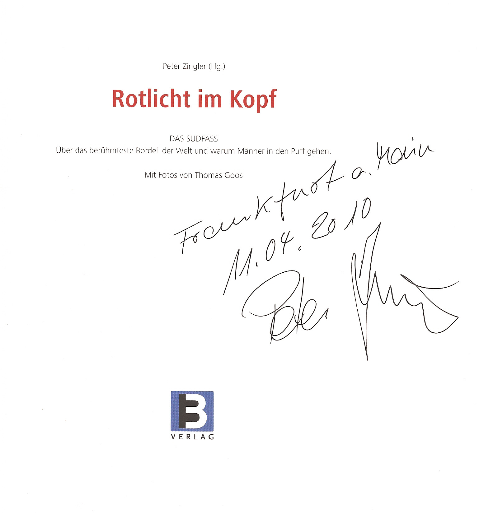 Autograph from Peter Zingler, German author, 2010 in Frankfurt am Main, Germany